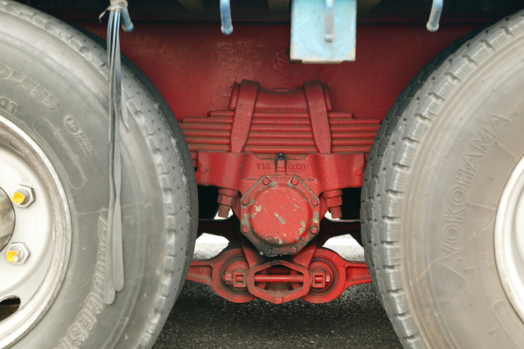 Trunnion shaft and rinks with ieaf spring of the heavy duty truck.